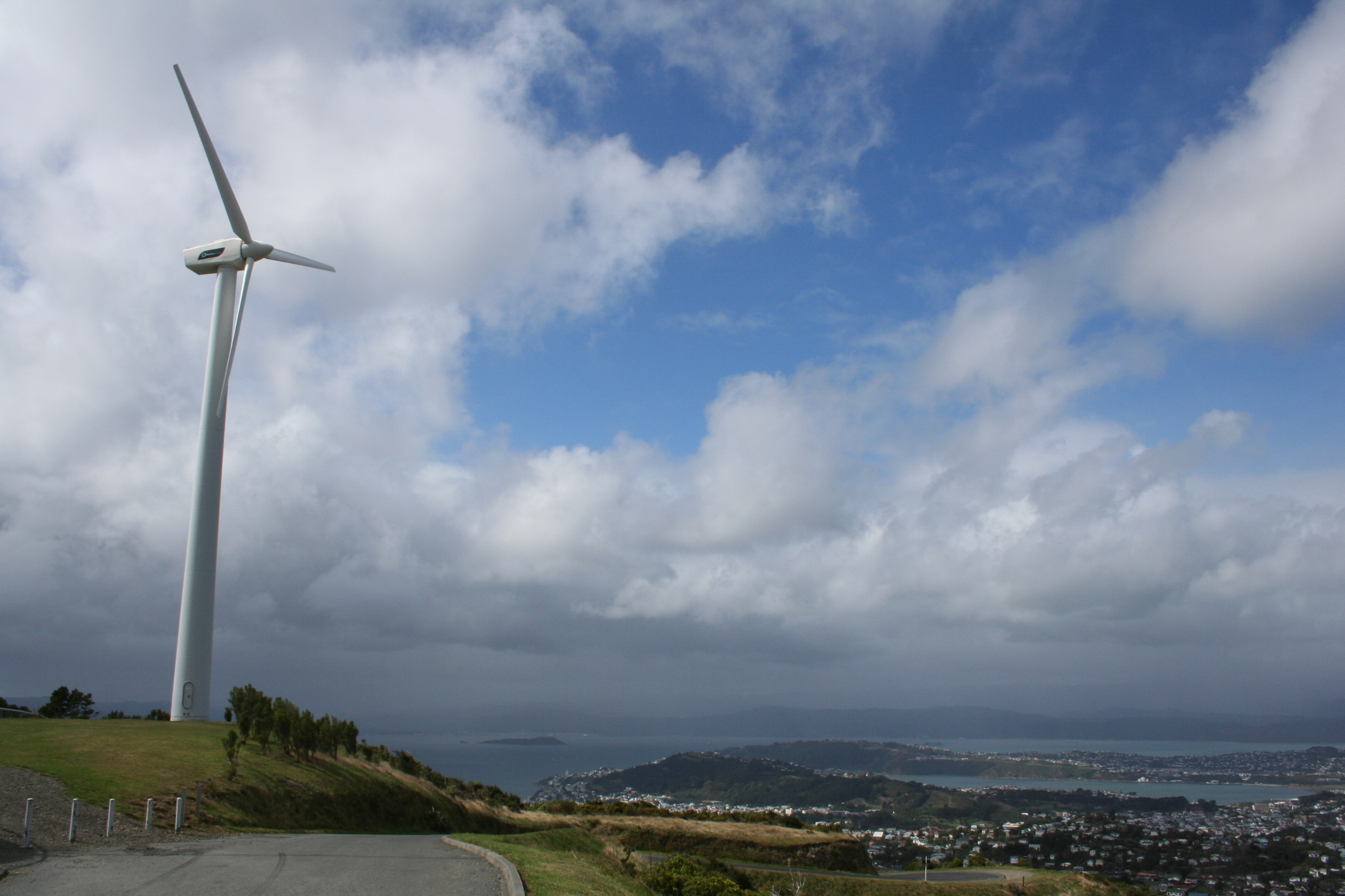 Brooklyn wind turbine, Wellington harbour in the background.